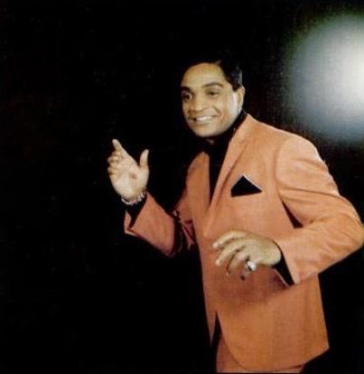 Trade ad for Jackie Wilson's single "Whispers".To better adapt it to his respective Wikipedia article, the ad was cropped and cleaned in a graphics editing program. The original can be viewed at the source below.